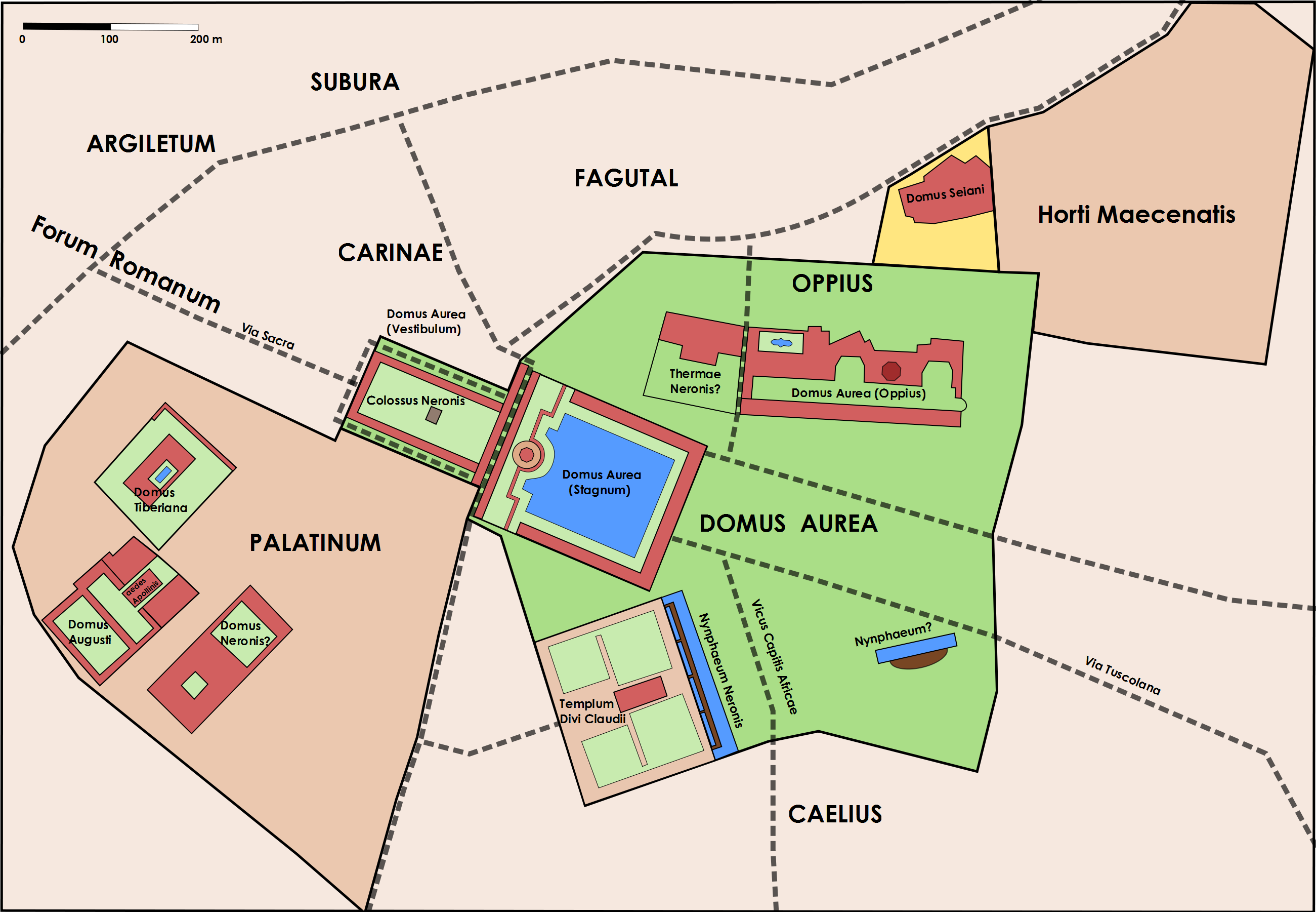 Domus Aurea (Golden House) palace of Roman emperor Nero built after the big fire of 64 A.D. in between the Palatinum, Caelius and Oppius hills of Rome, Italy. (The Colosseum was built later in the central area by the Flavian emperors.) The map features:* on the Palatine hill Domus Augusti, Domus Tiberiana and Domus Neronis? (houses of the emperors),* on the Caelius hill the Templum divi Claudi (temple for emperor Claudius), Nymphaeum Neronis (temple for a local nymph by Nero, fountain) and another Nymphaeum?,* on the Oppius hill Thermae Neronis? (public bath of Nero), Domus aurea (Oppius) (part of the Domus Aurea), Domus Selani (house of Selanus) and Hortus Maecenatis (Garden of Maecenas)* in the centre the large statue of Nero Colussus Neronis in the Domus Aurea (Vestibulum) and the large pool of the Domus Aurea (Stagnum).